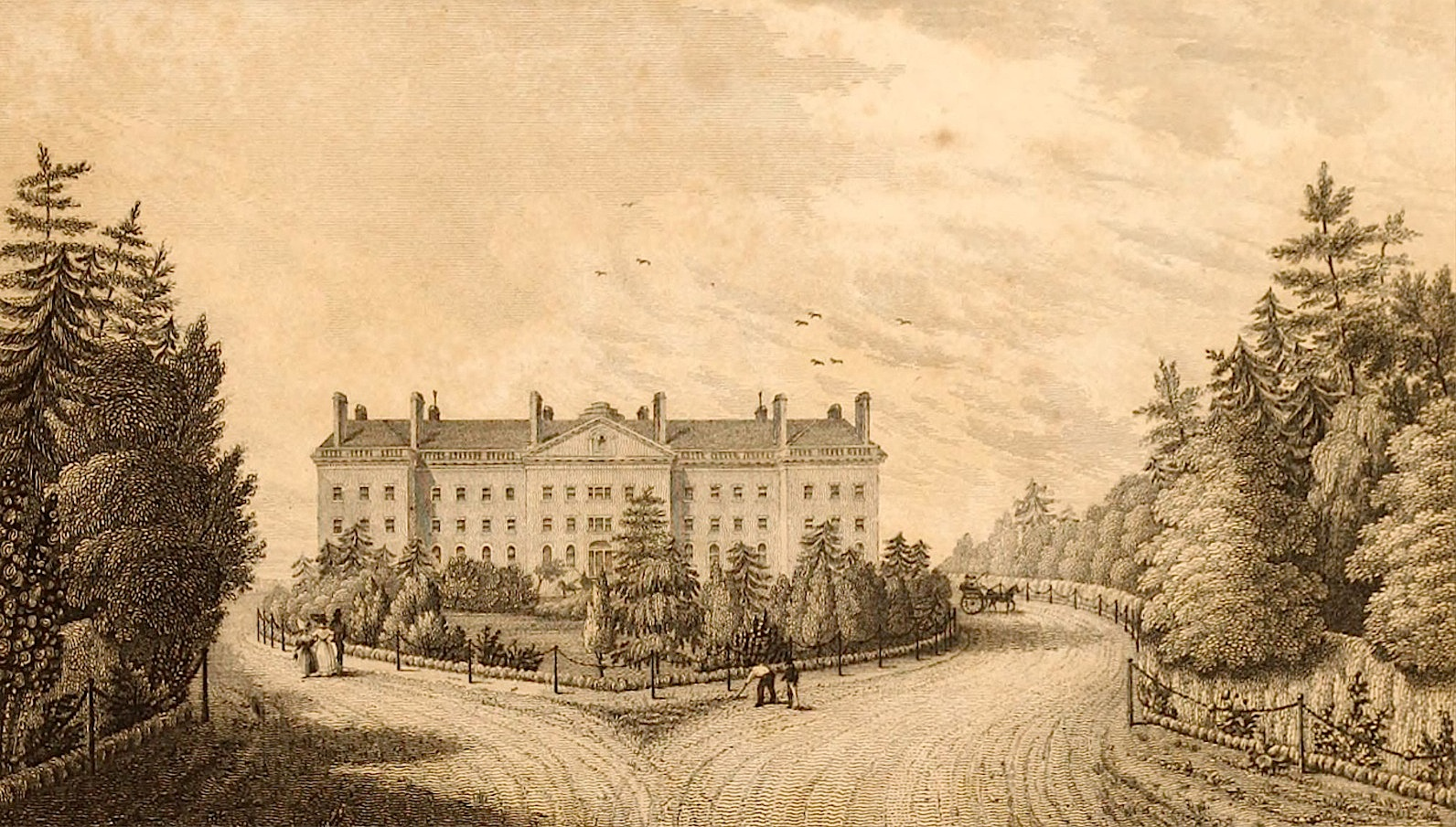 Caption: "LUNATIC ASYLUM. (Manhattanville.)" Credit line: "Drawn by A. Dick. Engraved by H. Fossette." Text, pp. 23-5 Today Columbia University and Manhattan School of Music occupy parts of the site of the former Bloomingale Insane Asylum.